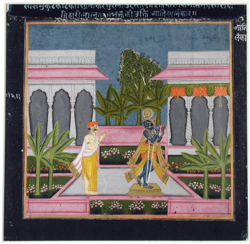 Series Title: Seven Hundred Verses Suite Name: Satsai of Bihari Creation Date: ca. 1770 Display Dimensions: 8 13/16 in. x 8 31/32 in. (22.4 cm x 22.8 cm) Credit Line: Edwin Binney 3rd Collection Accession Number: 1990.988 Collection: The San Diego Museum of Art